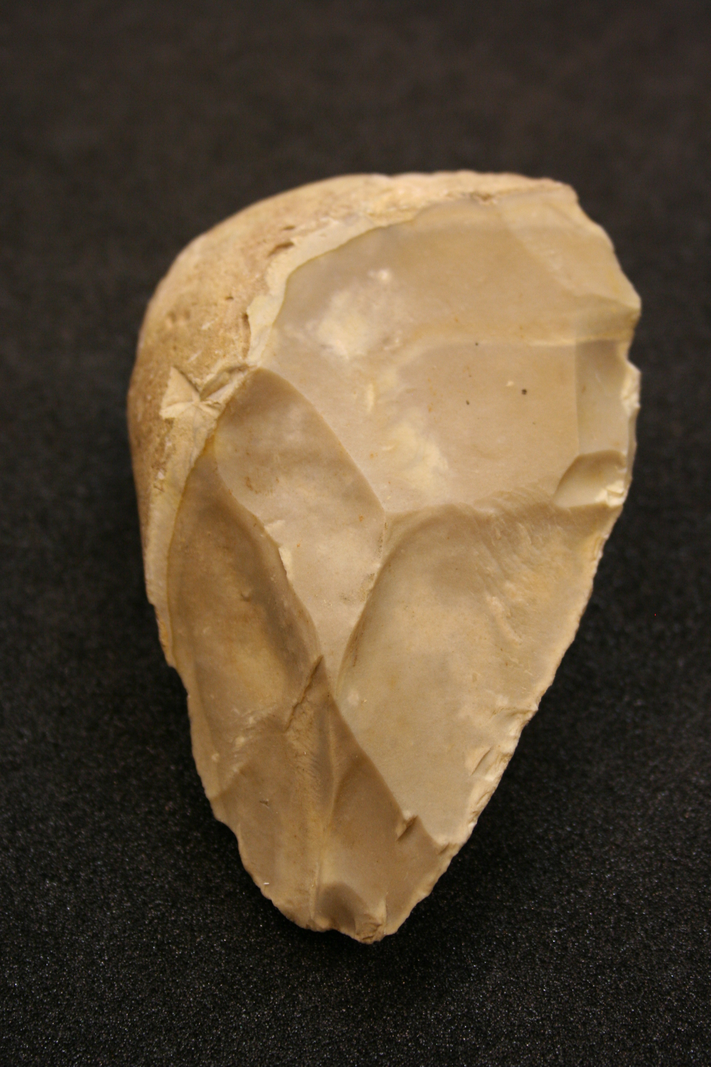 An Ice Age hand axe. Taken at the GLAM event on the 13 October 2011 at the British Museum.